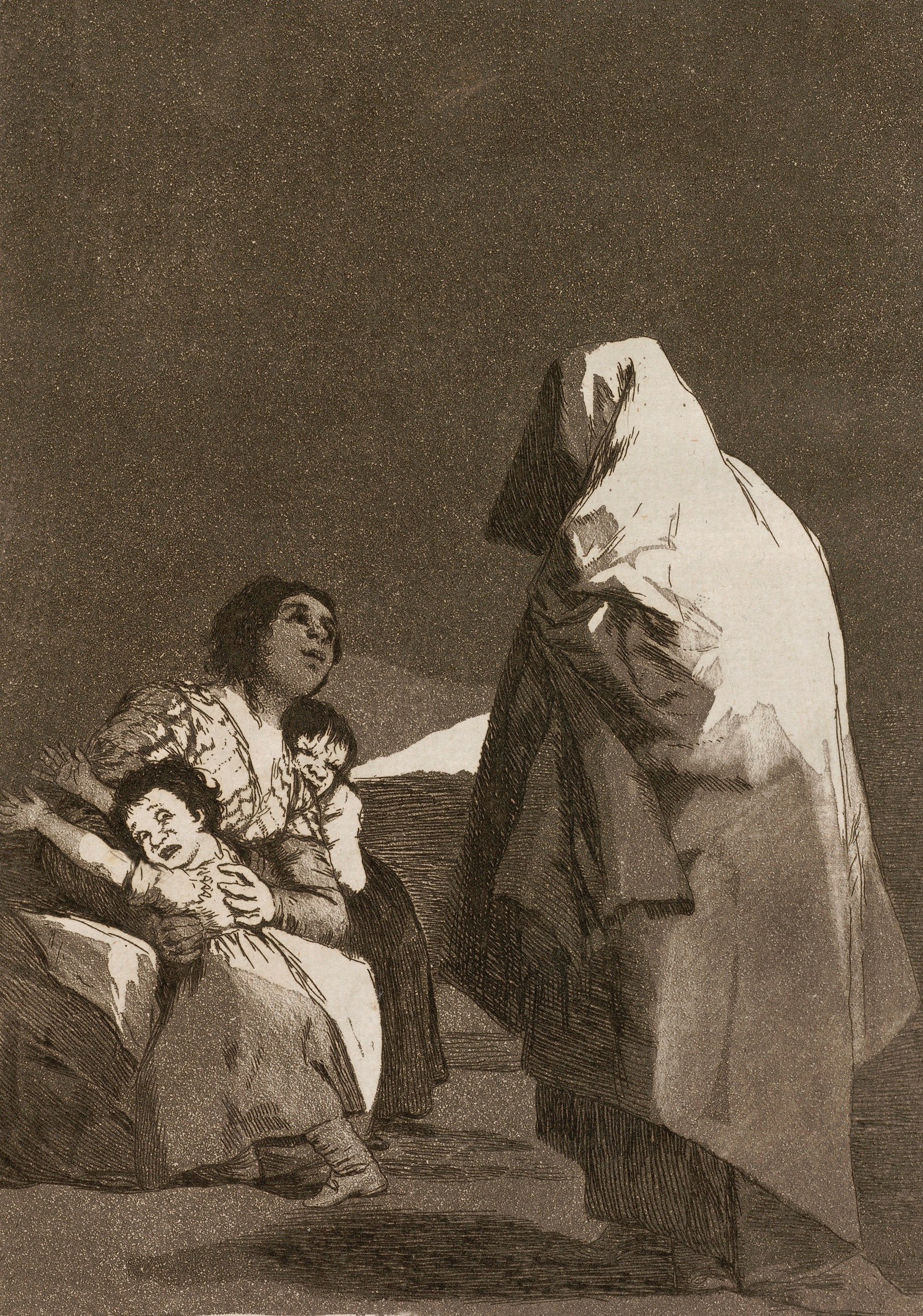 Part of the series Los Caprichos, a set of 80 aquatint prints created by the Spanish artist Francisco Jose de Goya in 1797 and 1798, and published as an album in 1799, no. 3.